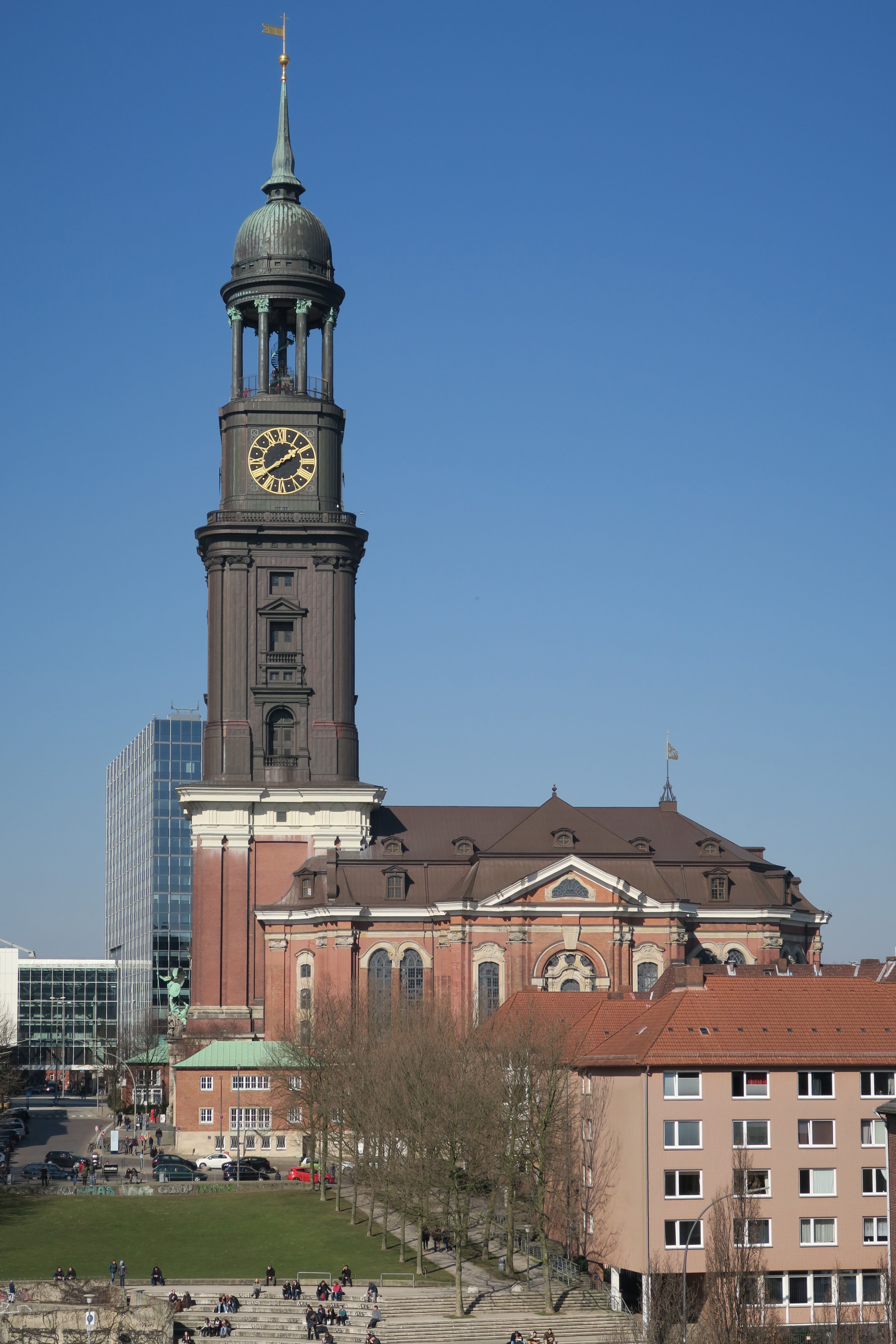 St. Michaelis Church in Hamburg